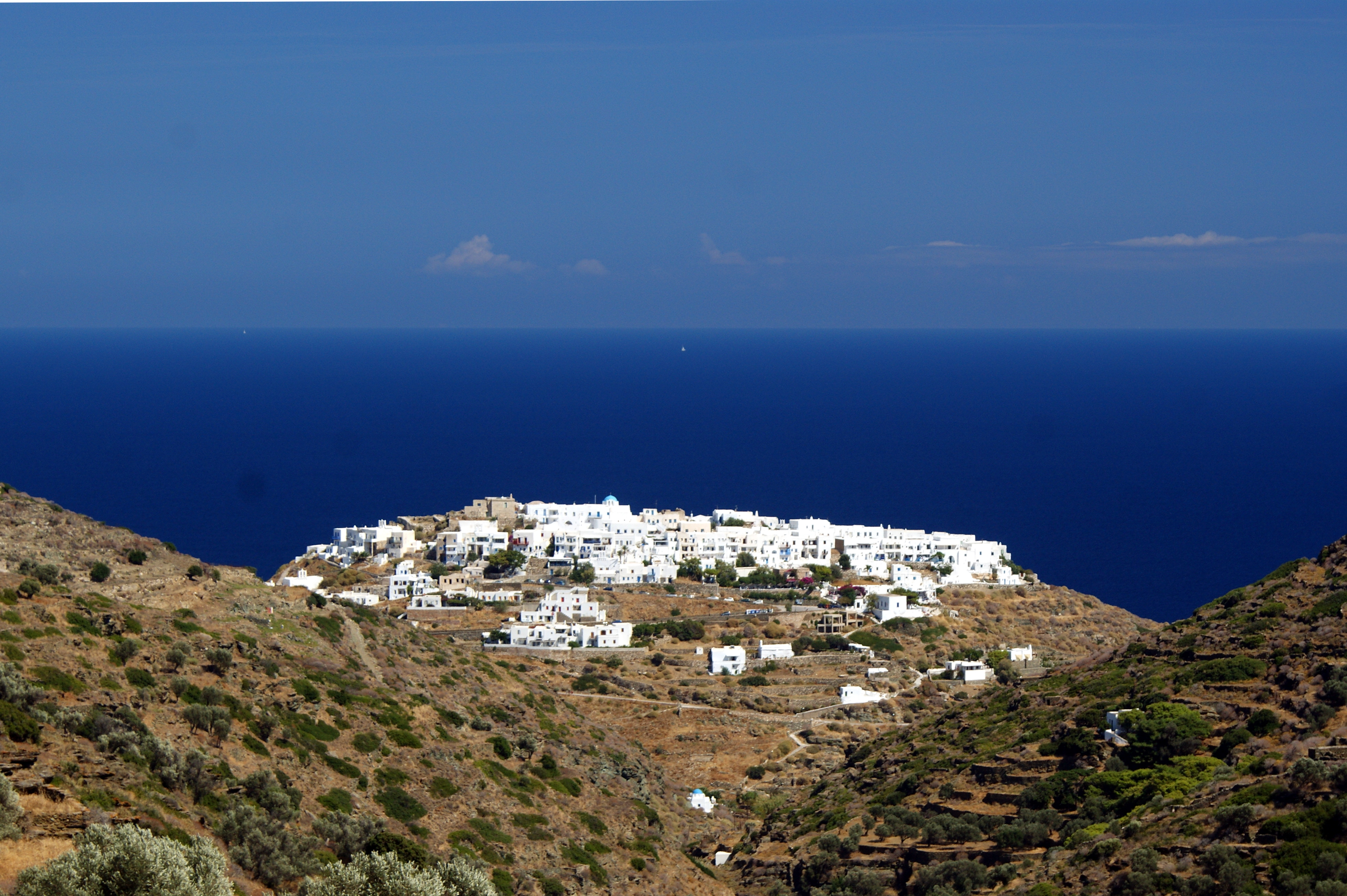 View of Kastro